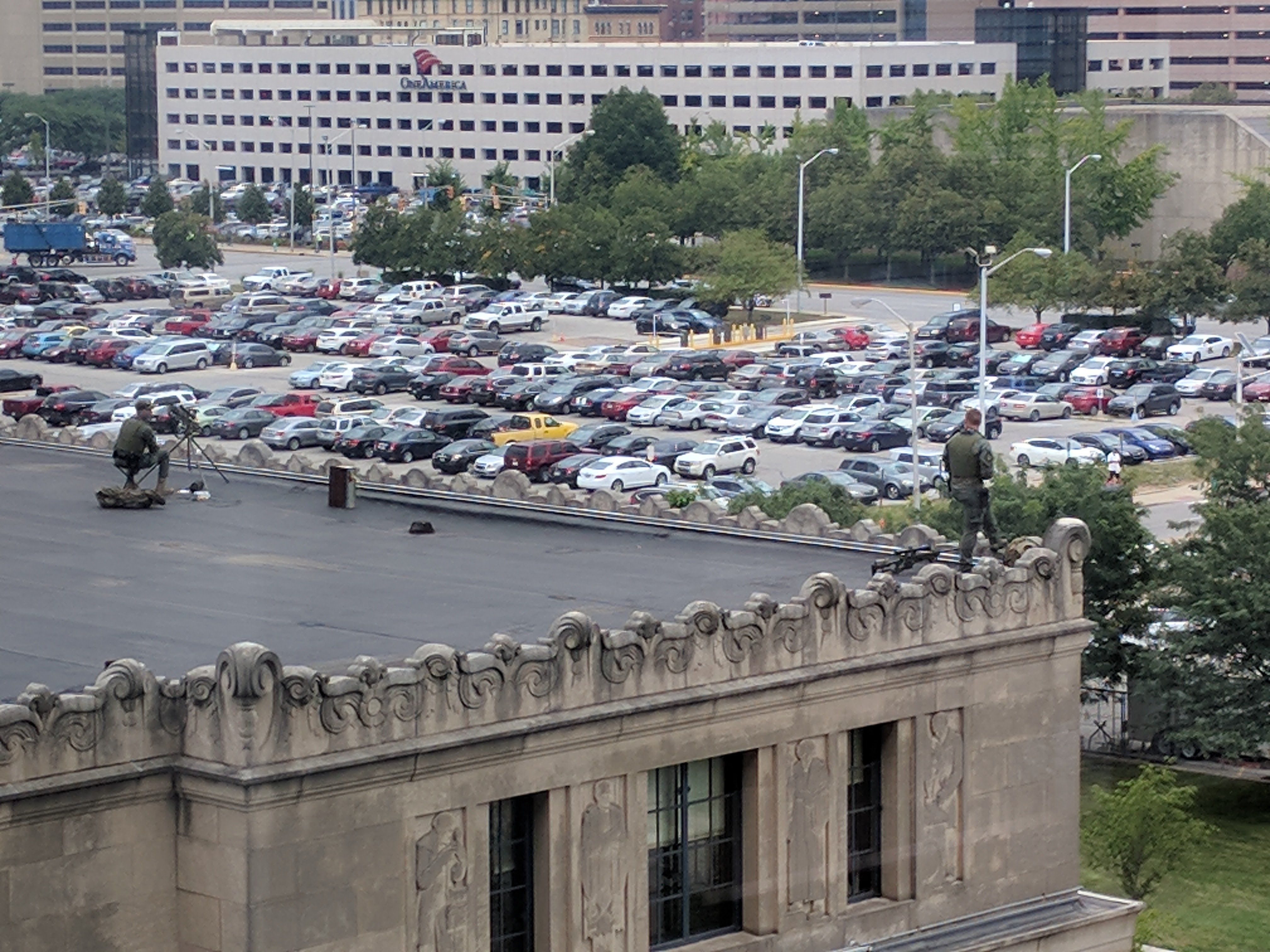 Two snipers perched atop the Indiana State Library during the Vice Presidential visit to Indiana on 2017/08/11.